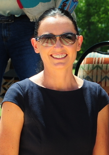 Montana National Guard Adjutant General Maj. Gen. Matthew Quinn stands with Montana's Lt. Governor Angela McLean and Army Pvt. 1st Class Ronald Williamson and his family after awarding him with the Bronze Star as part of a ceremony to honor veterans held during Crow Native Days on the Crow Reservation in Montana. Williamson was awarded the Bronze star for Valorous and Meritorious Actions while engaged in direct combat operations while deployed with 1st Battalion, 503rd Infantry Regiment in support of Operation Enduring Freedom July 19, 2010.